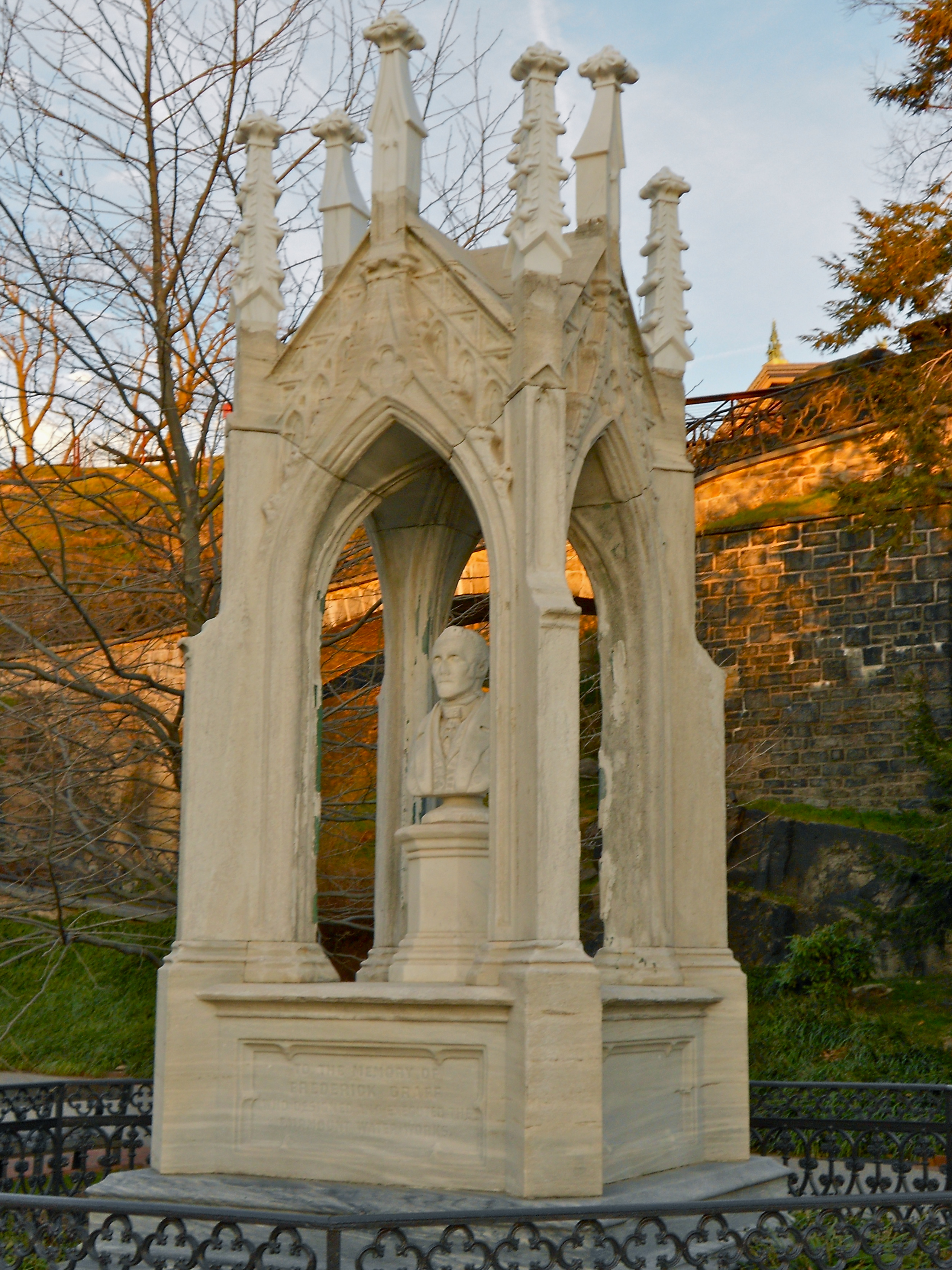 Frederick Graff Memorial, (sculpture). Unknown sculptor, 1844. At the Water works near Art Museum Dr. Marble on a granite base. SIRIS reference IAS 88320030